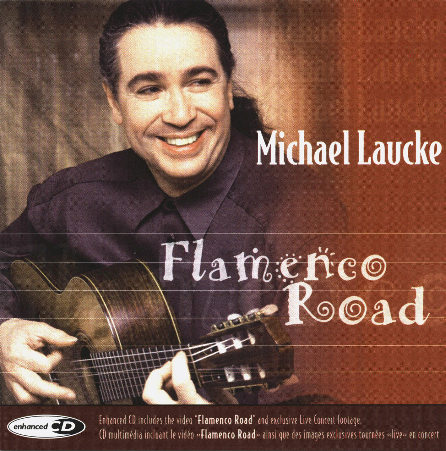 This is the front cover of the Flamenco Road CD jacket. This album was one of the first multimedia CDs and contains a video clip. Note for copyright purposes, this scan was taken by either an employee of, or by a photographer hired by Michael Laucke. It is a work for hire, owned and paid for by Michael Laucke. It is hereby licensed under Public Domain Dedication (CC0); ALL RIGHTS WAIVED! Michael Laucke has complete ownership of the Flamenco Road production and is arranger, performer and producer of these works and sometimes composer.